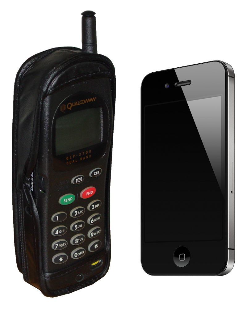 Qualcomm QCP-2700 vs iPhone 4S Black